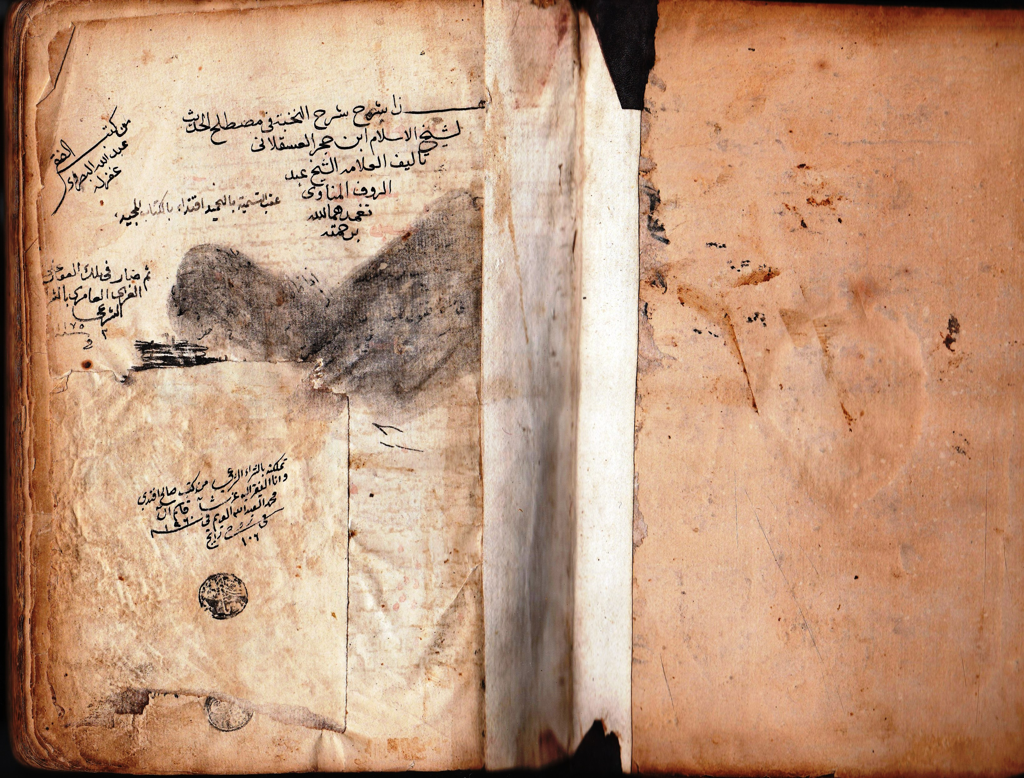 This manuscript was purchased and acquired by Sheikh Qasim Effendi Mufti in 1843 But the writer says that he wrote it in 1134 H/1722